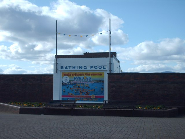 Entrance to Gourock outdoor Bathing Pool / swimming pool